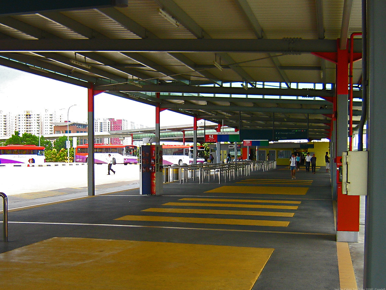 Boarding Berths at Punggol Bus Interchange Img by Calvin Teo, June 2006